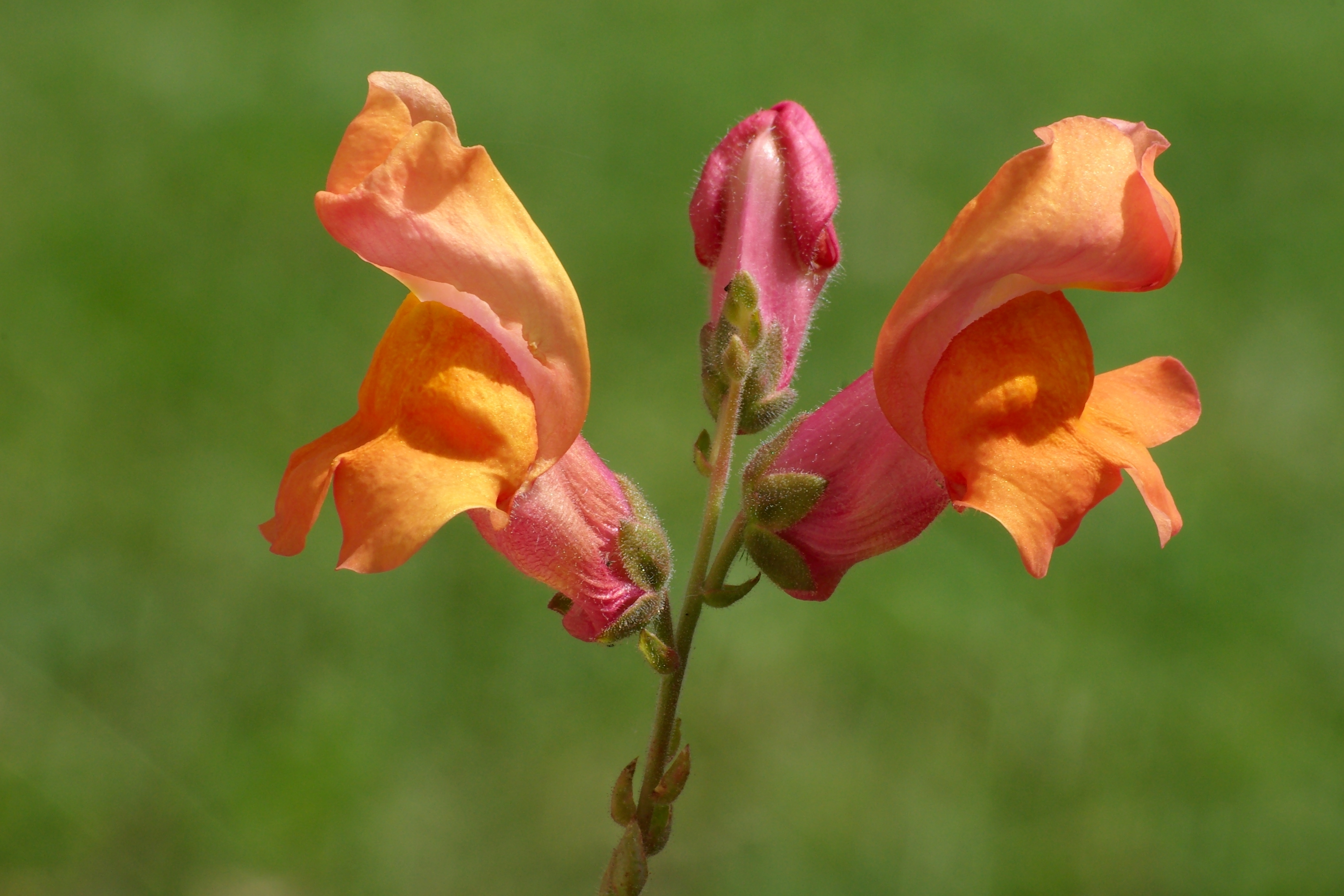 Snapdragon (Antirrhinum majus), in a garden, France.